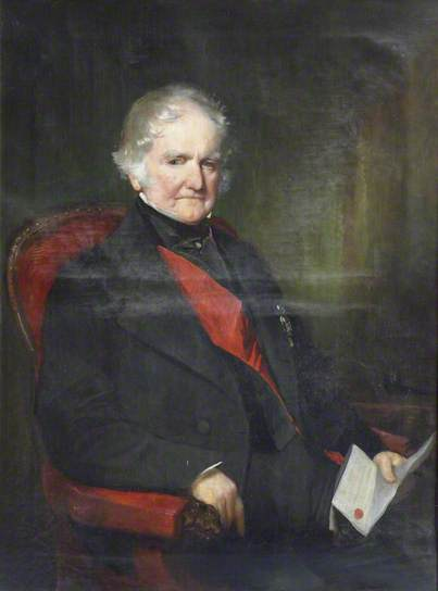 Portrait of Admiral of the Fleet Sir John West